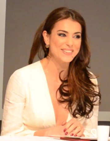 Catarina Furtado in 2015